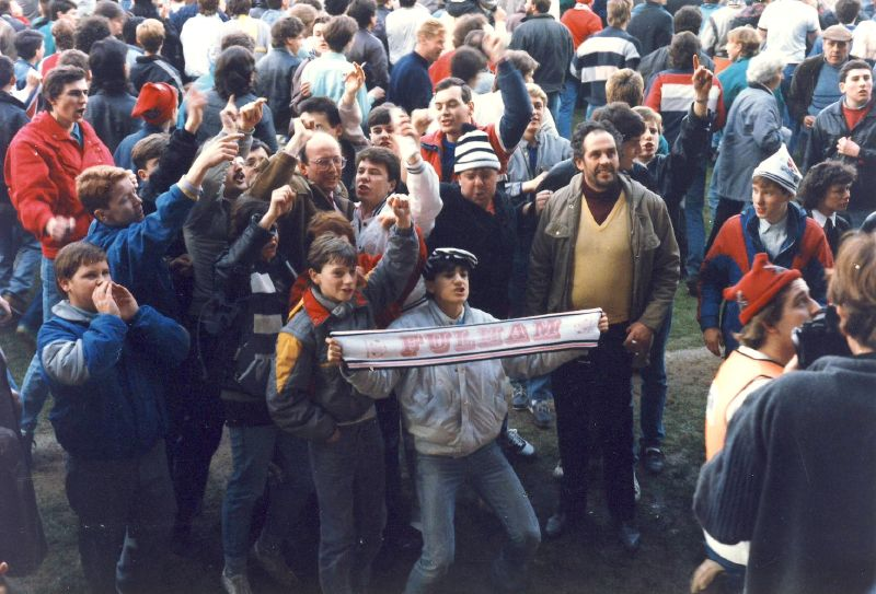 Fulham FC fans take to the pitch at Craven Cottage, to protest plans to demolish the stadium. 1987. Original caption: "Fulham Protest 1987. MP Nick Rainsford (middle, bald with glasses) looks a bit uncomfortable."